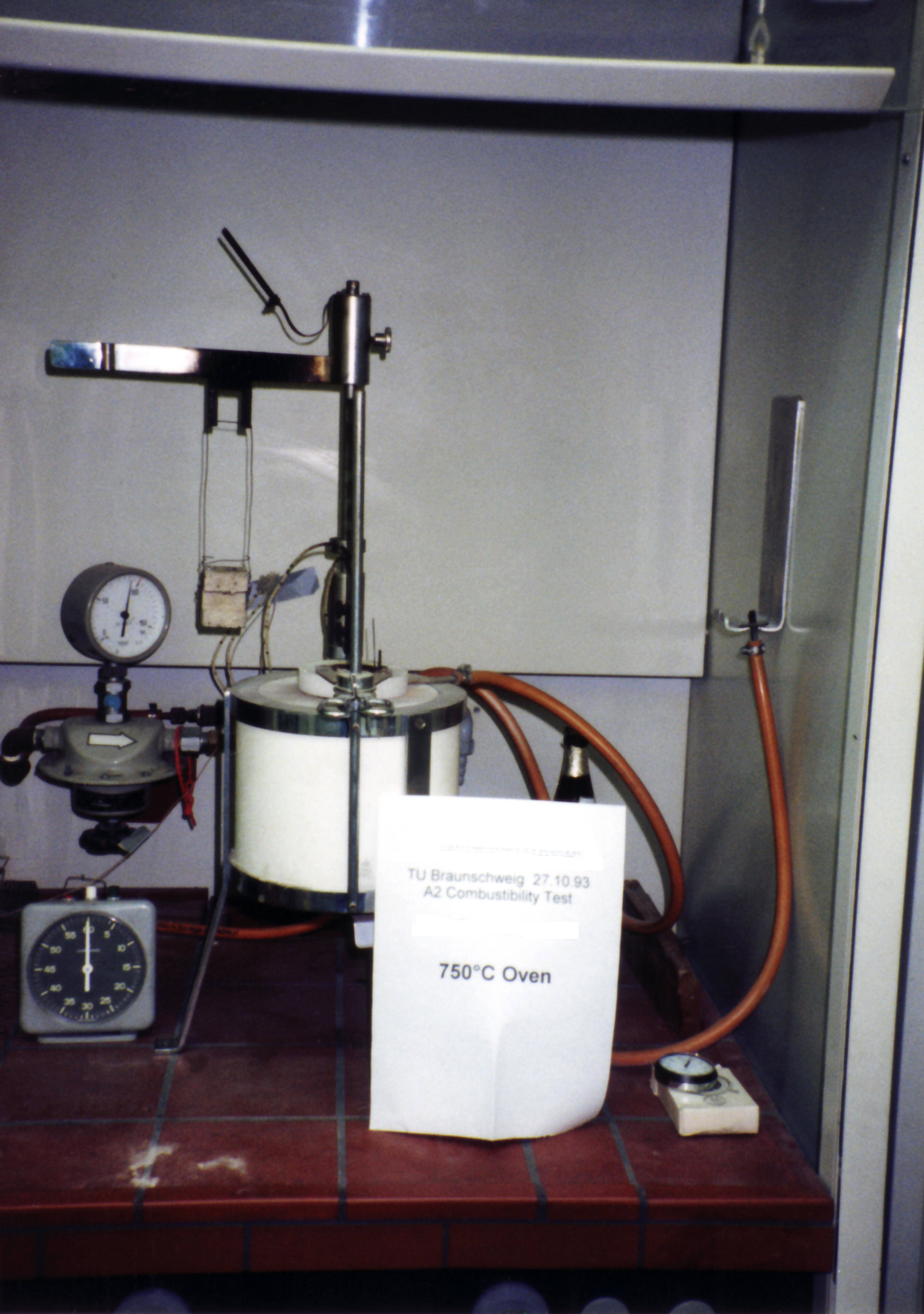 Fire test furnace to qualify substances or products as noncombustible, class A1 or A2 as per DIN 4102 Part 1 or ISO 1182 at Technische Universität Braunschweig, iBMB, Germany. Also .